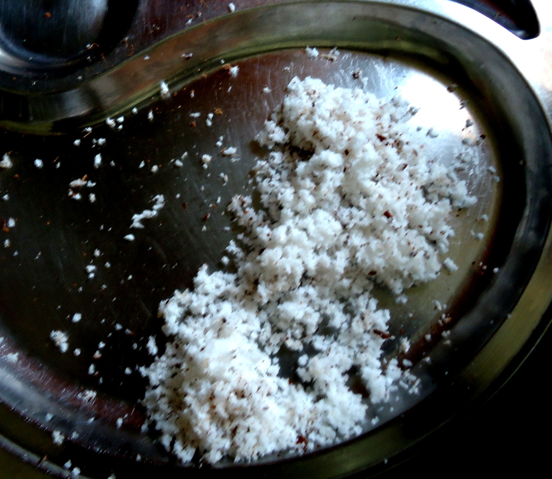 Coconut Scrapped